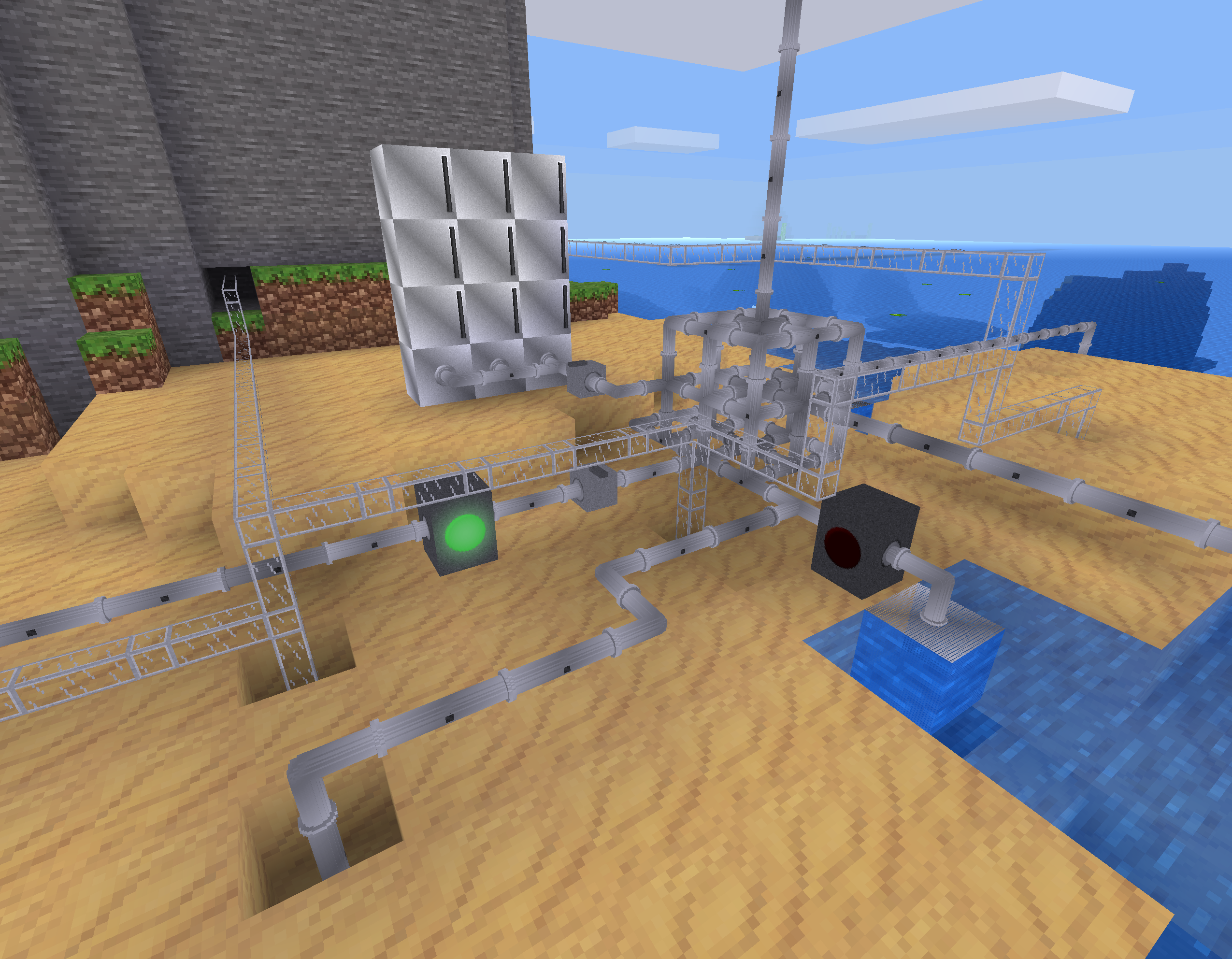 Screenshot of my Pipeworks mod. More information about the mod pictured here